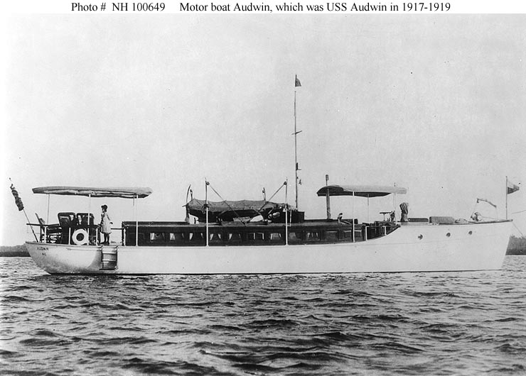 USS Audwin (SP-451)The American civilian motorboat Audwin, which later served in the United States Navy as the patrol vessel from 1917 to 1919 and in the United States Coast and Geodetic Survey as the survey vessel USC&GS Audwin from 1919 to 1927